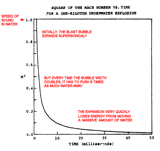 EXPANSION RATE OF BUBBLE CAUSED BY UNDERWATER NUCLEAR EXPLOSION